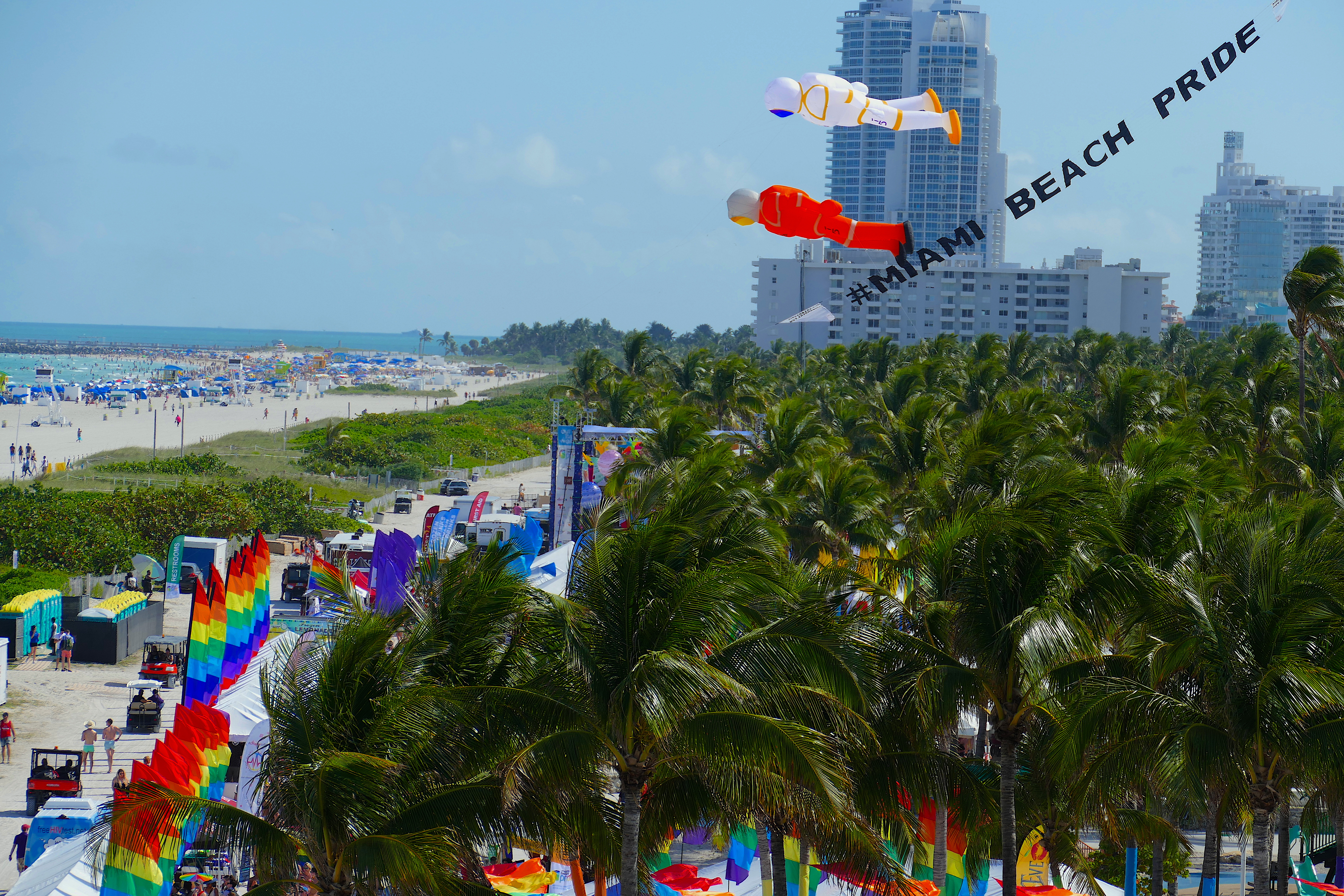 Location: Miami, USAEvent type: Miami Beach PrideDate or year: 04/06/2019